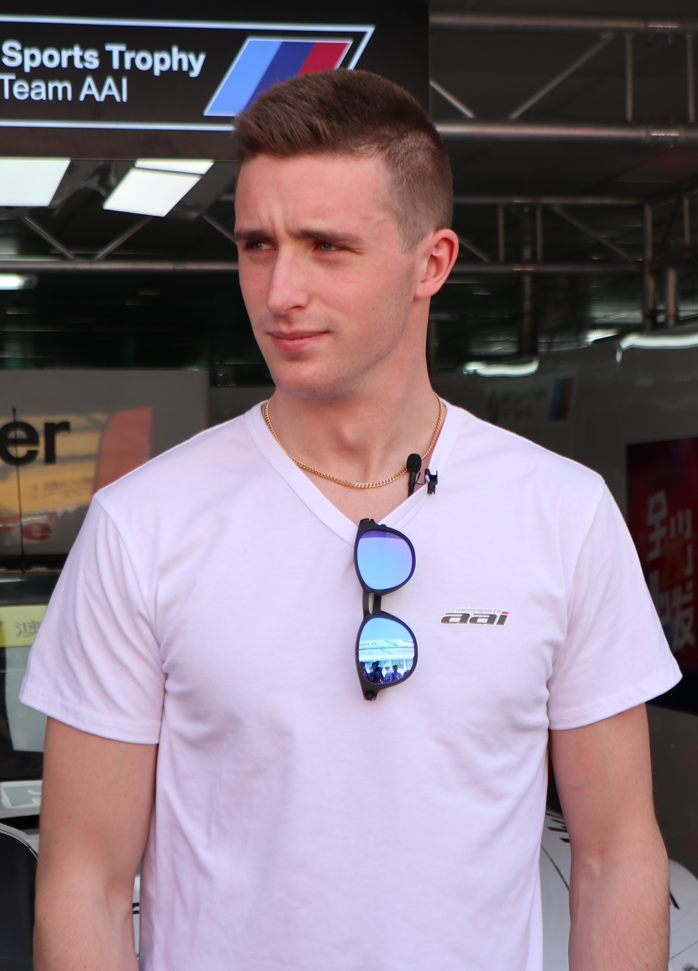 Joel Eriksson in 2019 Macau GP